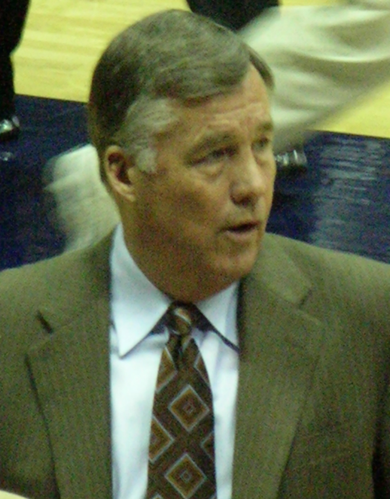 California Golden Bears men's head basketball coach Mike Montgomery during the 2008 Golden Bear Classic championship game between the California Golden Bears and the Portland Pilots at Haas Pavilion. The Golden Bears won 81-61.